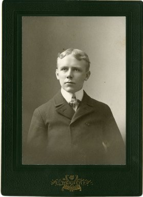 Portrait of Percival Proctor Baxter, Maine businessman and Governor. Albumen cabinet card. 16 x 11 cm. Image courtesy of the Bowdoin College Library, Brunswick, Maine.